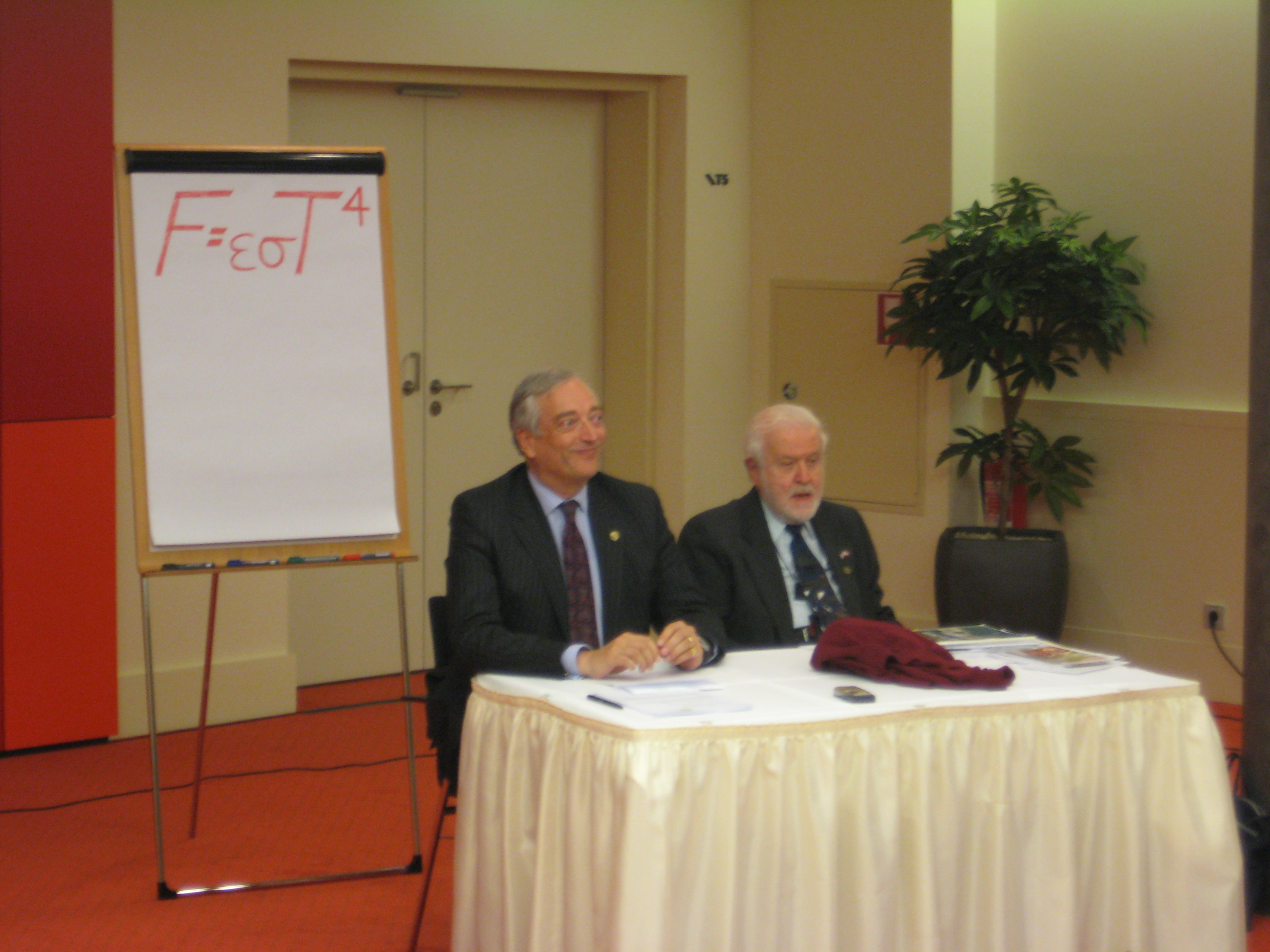 Christopher Monckton, 3rd Viscount Monckton of Brenchley and Fred Singer at the EIKE conference in Berlin 2009.